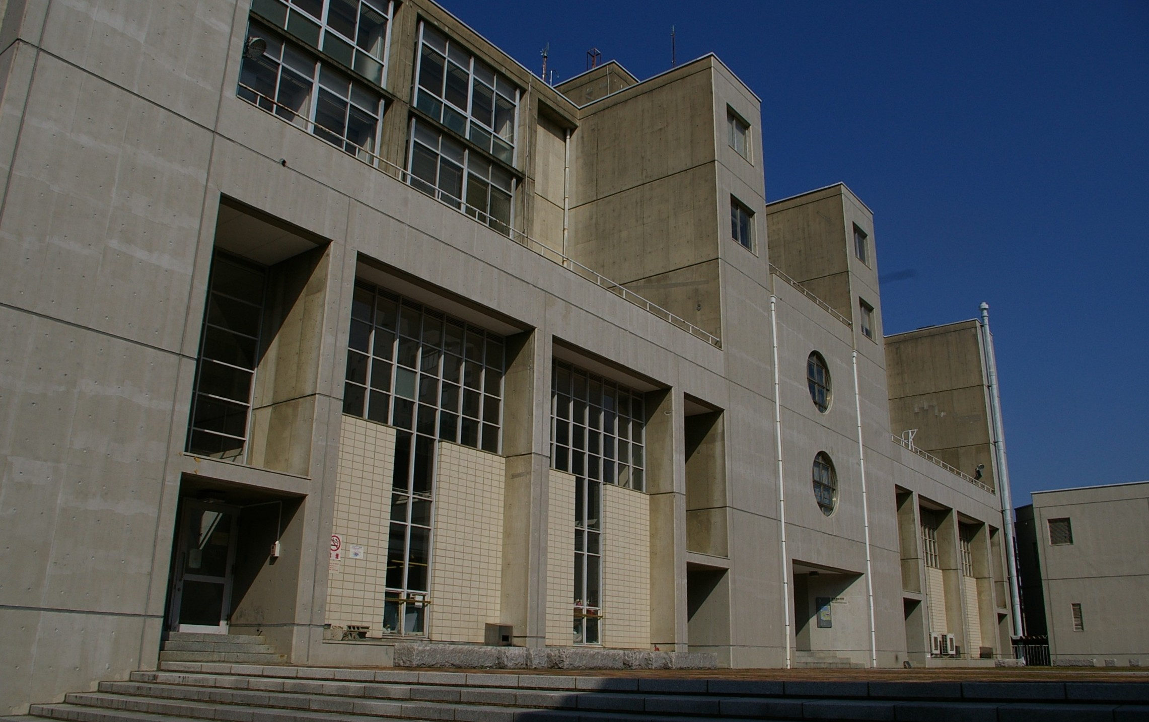 Fukuoka